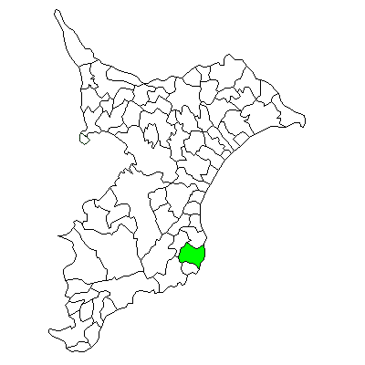 Location Map of former Ohara Town, Chiba Prefecture, Japan, now part of Isumi City.